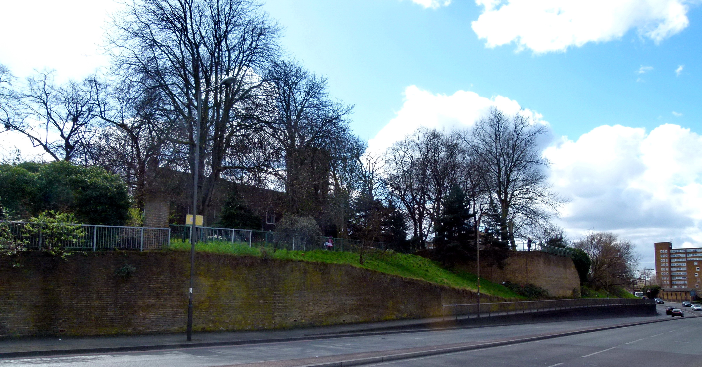 View from Woolwich Church Street of St Mary's Gardens in Woolwich, South East London, UK.